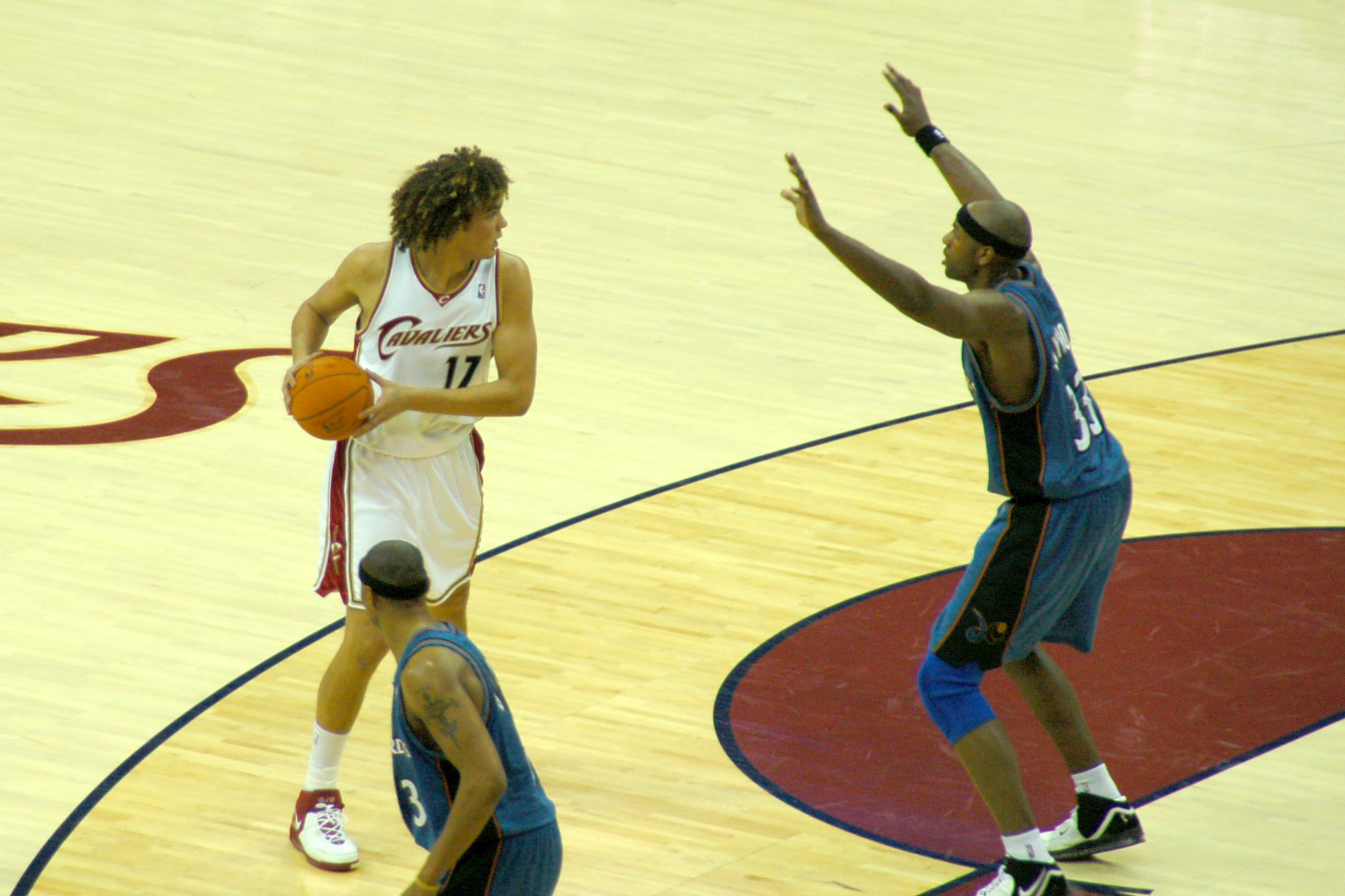 Anderson Varejao (on the left) against Washington Wizards